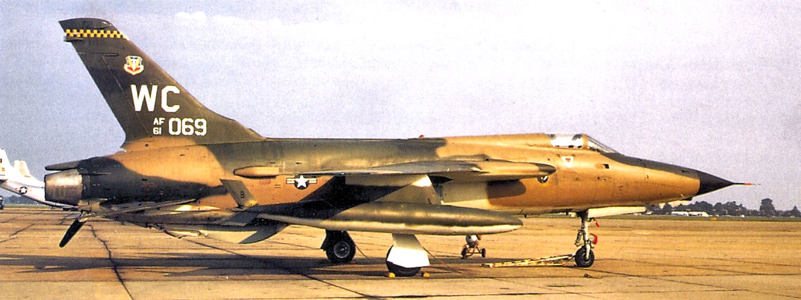 4537th Fighter Weapons Squadron - Republic F-105D-15-RE Thunderchief 61-0069 Nellis AFB, Nevada, 1966